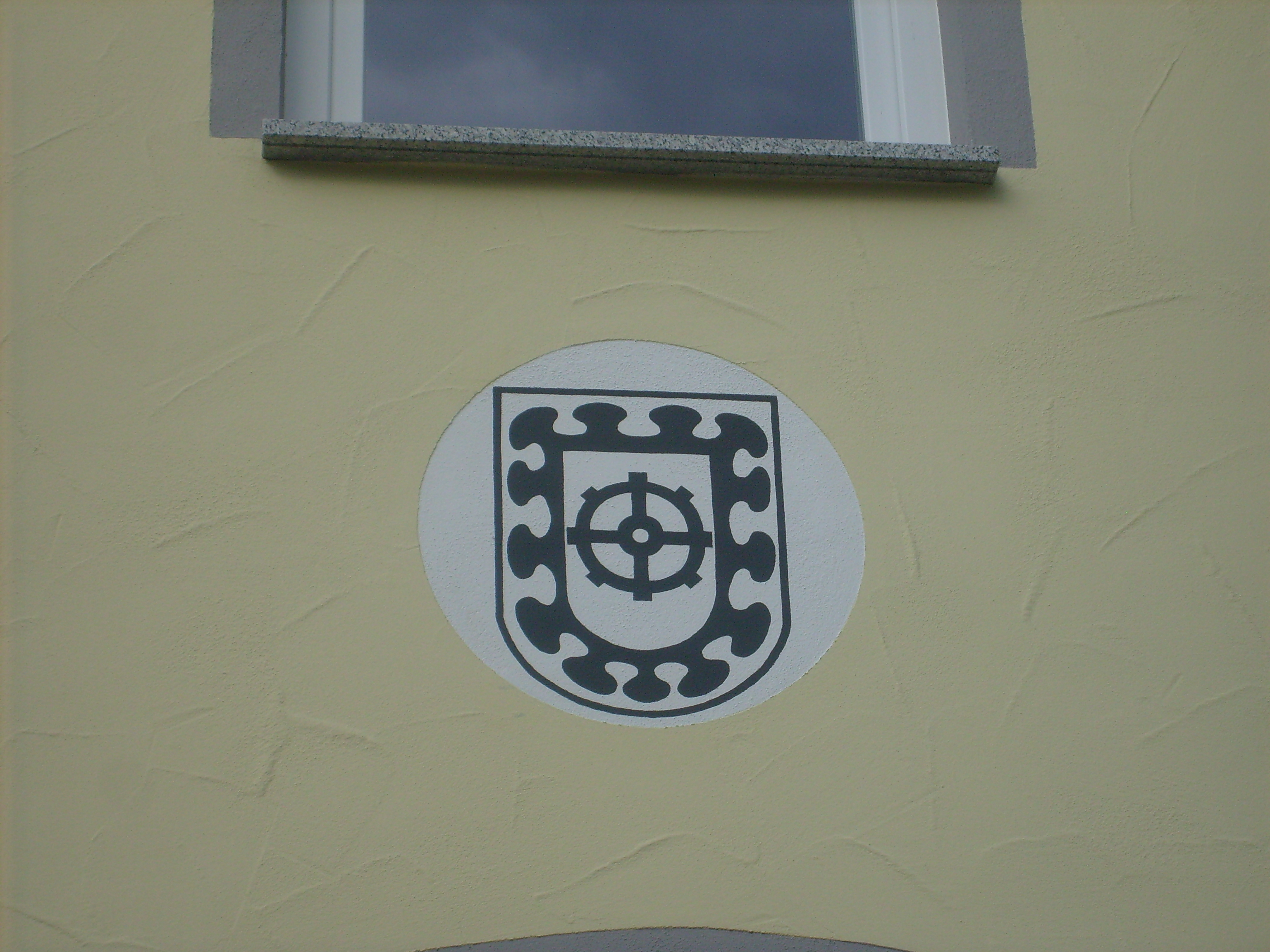 Coat of arms of Scherkingen on the seat of local government in Meßkirch-Schnerkingen, Germany